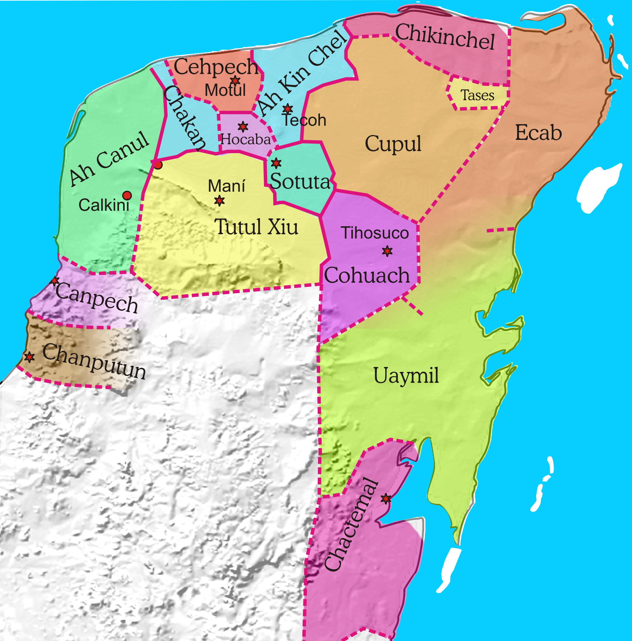 Yucatan, Mexico: Maya political entities at about 1500 A.D.